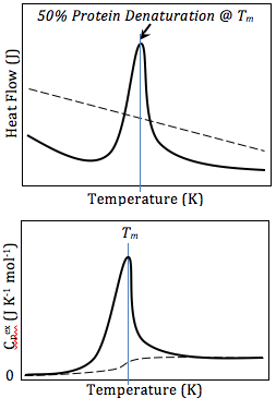 Top: A schematic DSC curve of amount of energy input (y) required to maintain each temperature (x), scanned across a range of temperatures. Bottom: Normalized curves setting the initial heat capacity as the reference. Buffer-buffer baseline (dashed) and protein-buffer variance (solid).